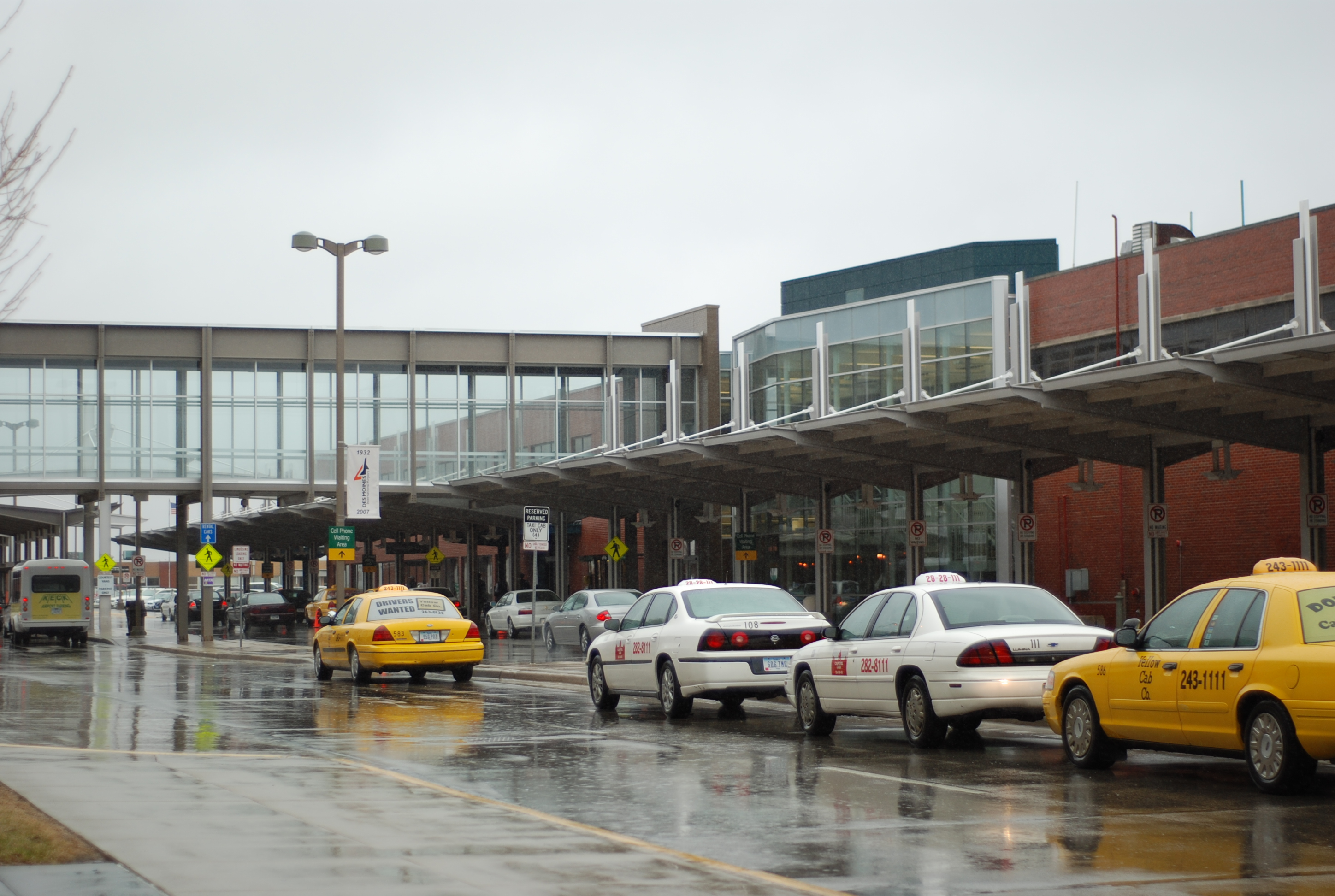 Des Moines International Airport